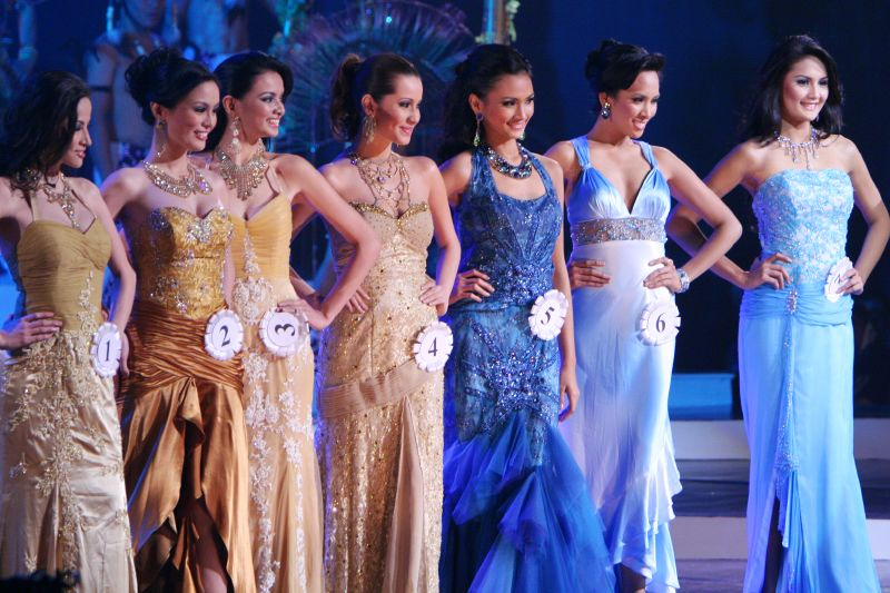 the candidates of Binibining Pilipinas 2008 dress in evening gown.